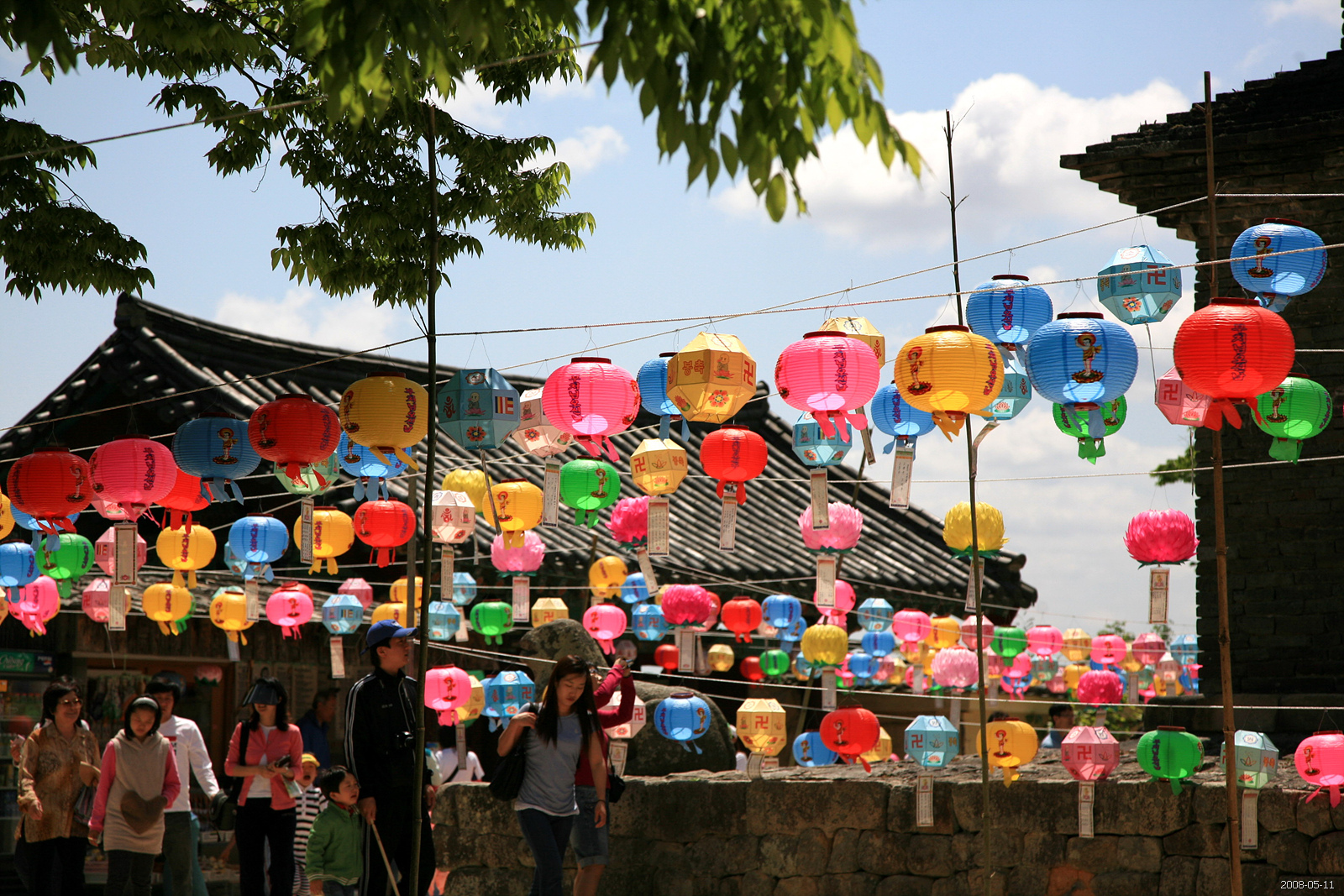 A view of Bunhwangsa in Gyeongju, North Gyeongsang province, South Korea